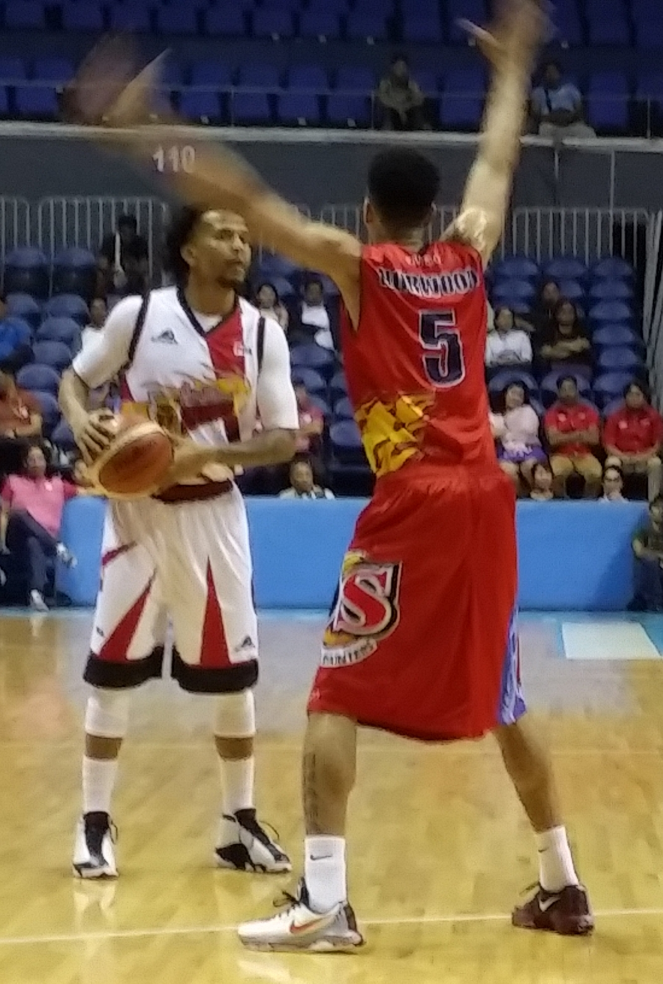 PBA - Rain or Shine vs San Miguel - Chris Ross-San Miguel - 2016-0107